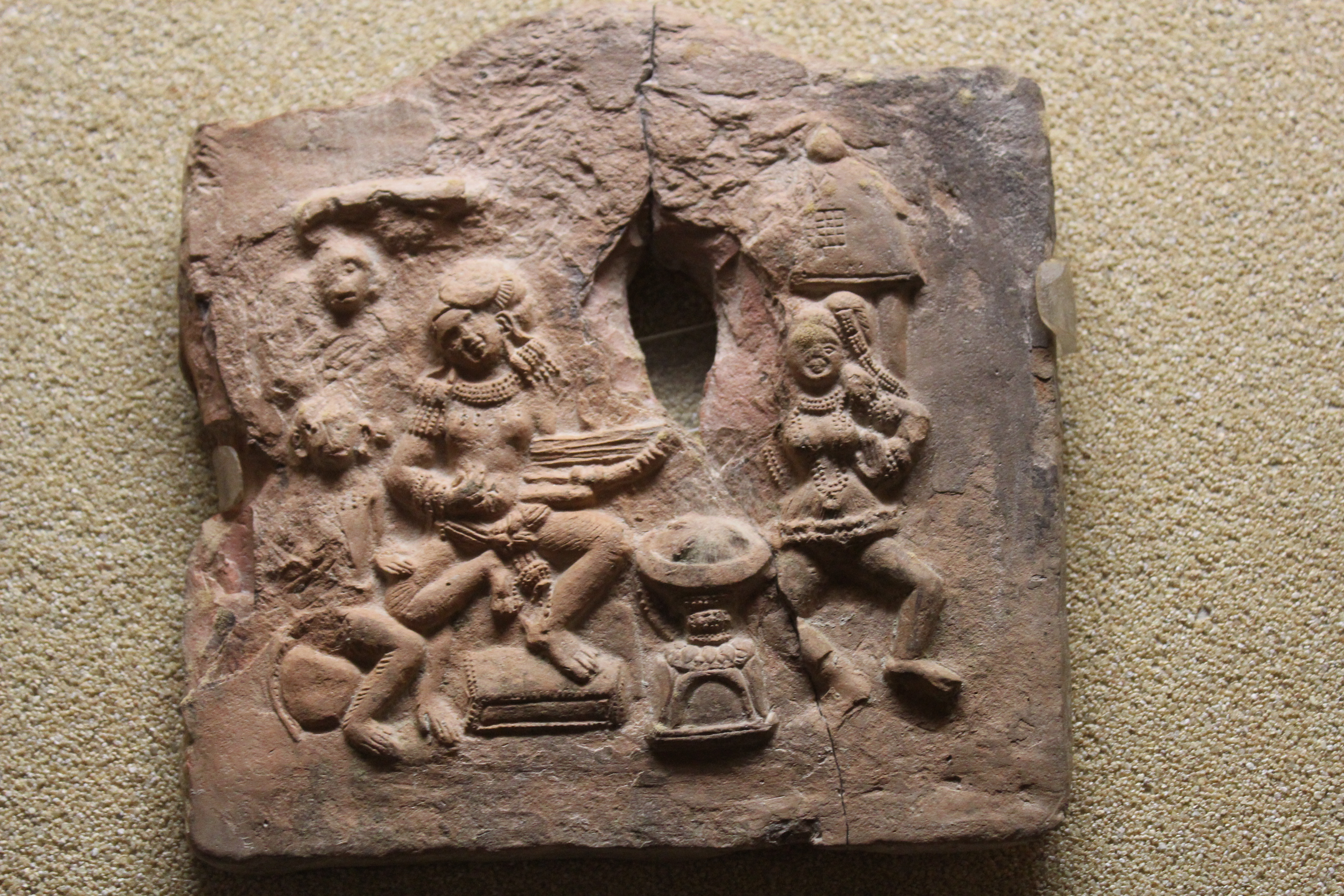 Terracotta plaque and seal, Tilpi and Dhosa, South 24 Parganas- Early history gallery- State Archaeological Museum- 1, Satyen Roy Rd, Auddy Bagan Basti, Behala, Kolkata, West Bengal 700034- First floor